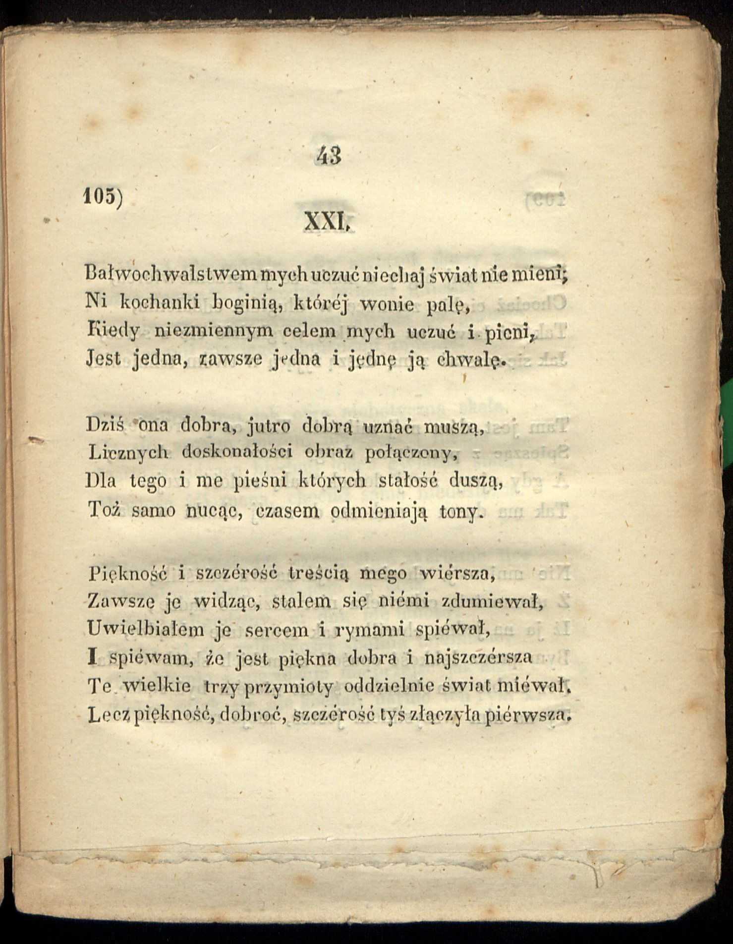 Shakespeare's Sonnets Konstanty Piotrowski Polish translation sonnet 105 page 43